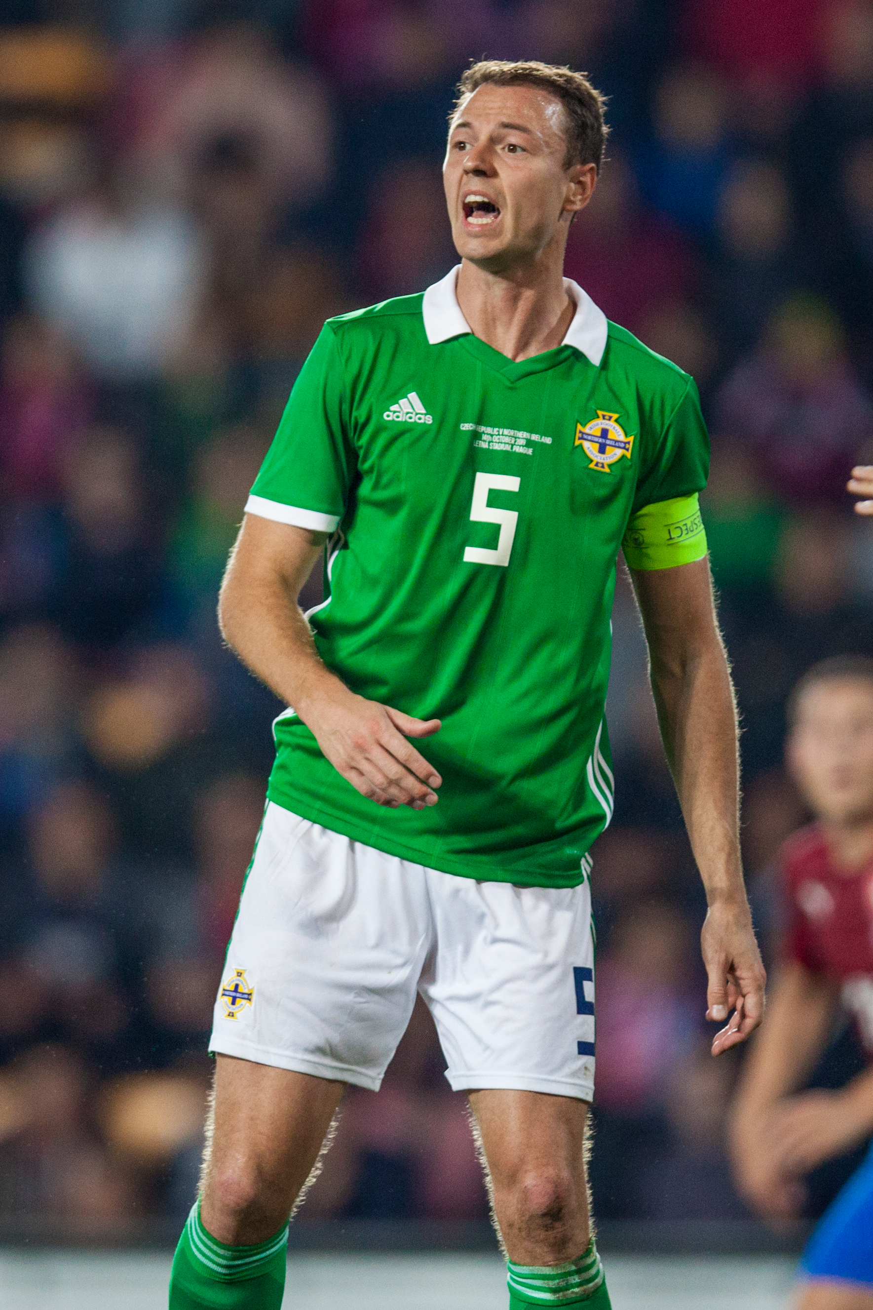 Jonny Evans in an international friendly match between Czech Republic and Northern Ireland (2:3), Stadion Letná (Prague) 2019-10-14 The making of this work was supported by Wikimedia Austria. For other files made with the support of Wikimedia Austria, please see the category Supported by Wikimedia Österreich. Personality rights warningAlthough this work is freely licensed or in the public domain, the person(s) shown may have rights that legally restrict certain re-uses unless those depicted consent to such uses. In these cases, a model release or other evidence of consent could protect you from infringement claims.